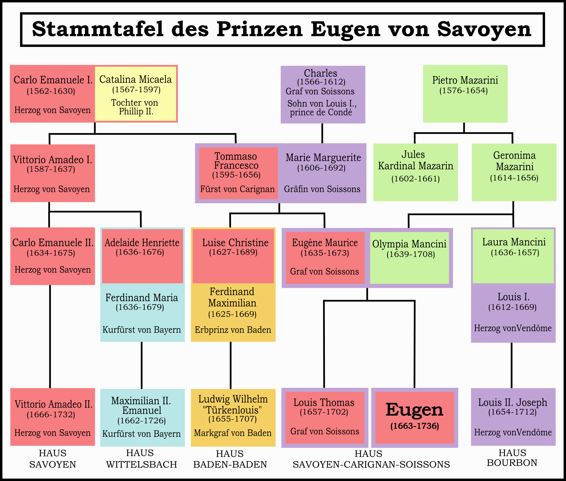 Family Tree of Prince Eugene of Savoy